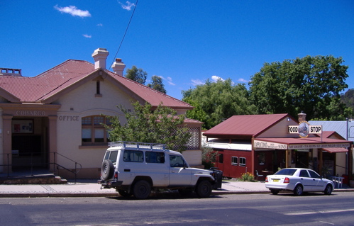 View of the Cobargo Post office, 10/12/2005